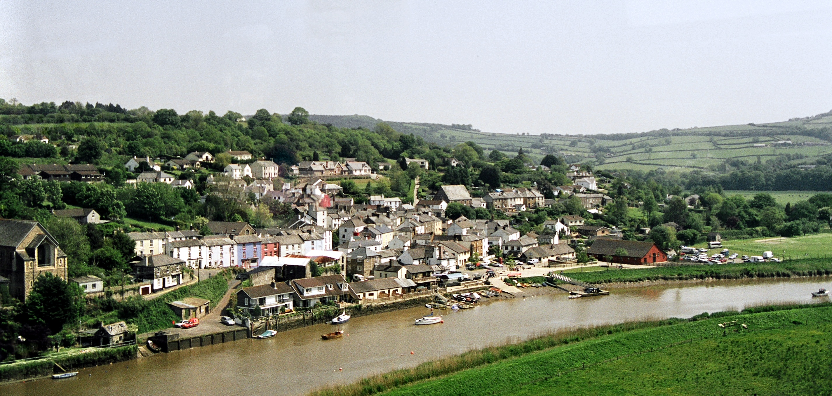 Calstock in Cornwall, viewed from a train on Calstock Viaduct.